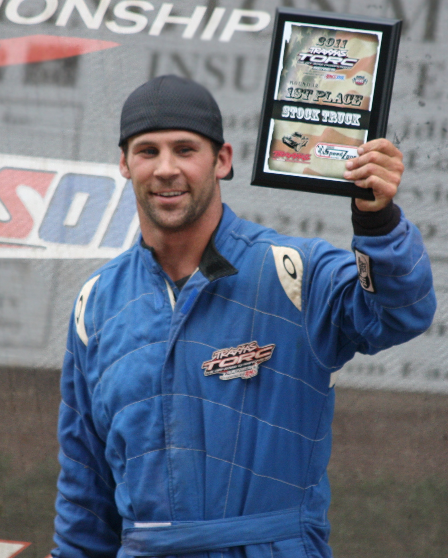 Olympics snowboarder Nick Baumgartner after winning the 2011 Traxxas TORC Series off-road race at Oshkosh, Wisconsin.